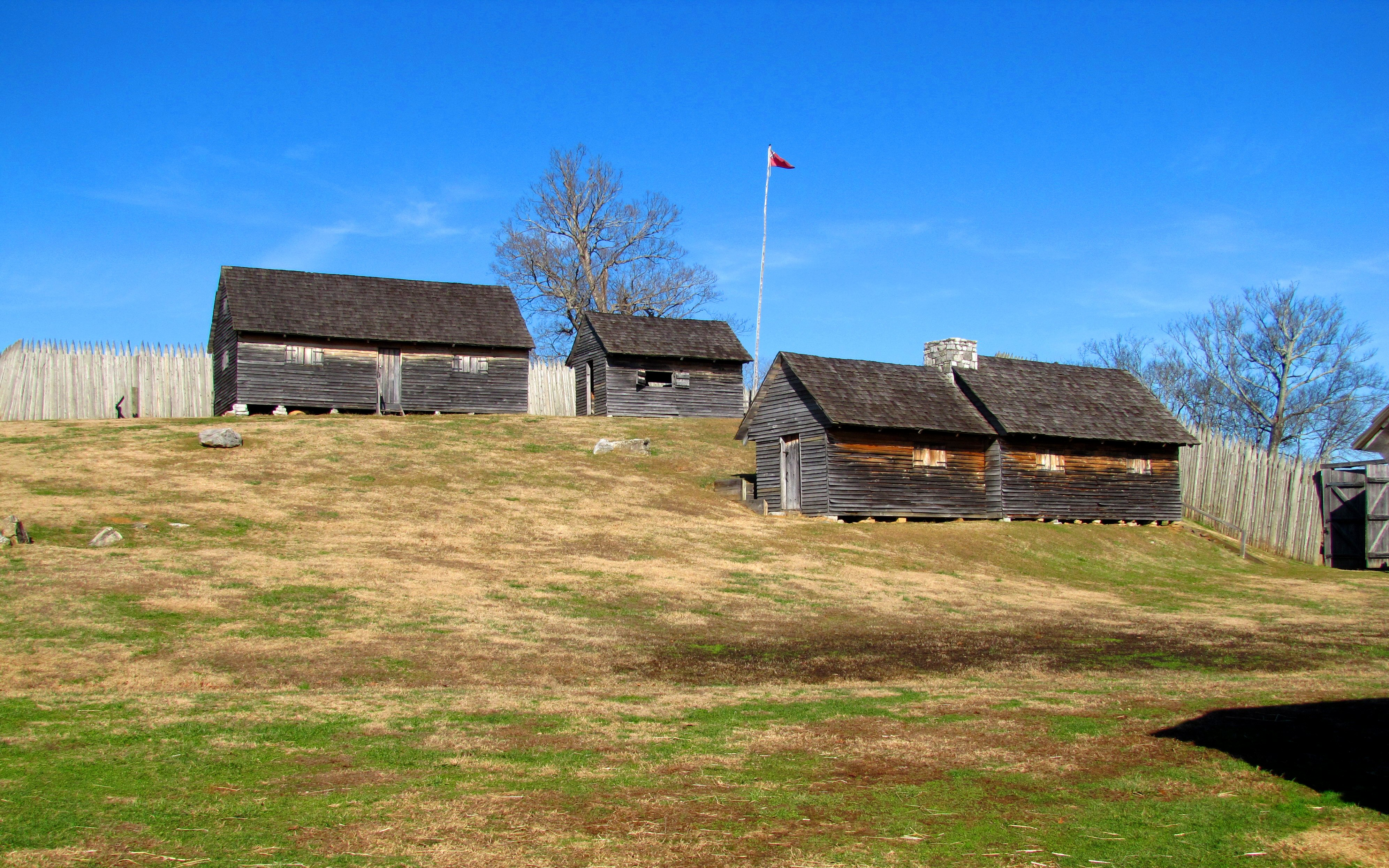 Structures in the northeast corner of the reconstructed Fort Loudoun in Monroe County, Tennessee, United States. The structure on the right is fort's guardhouse.